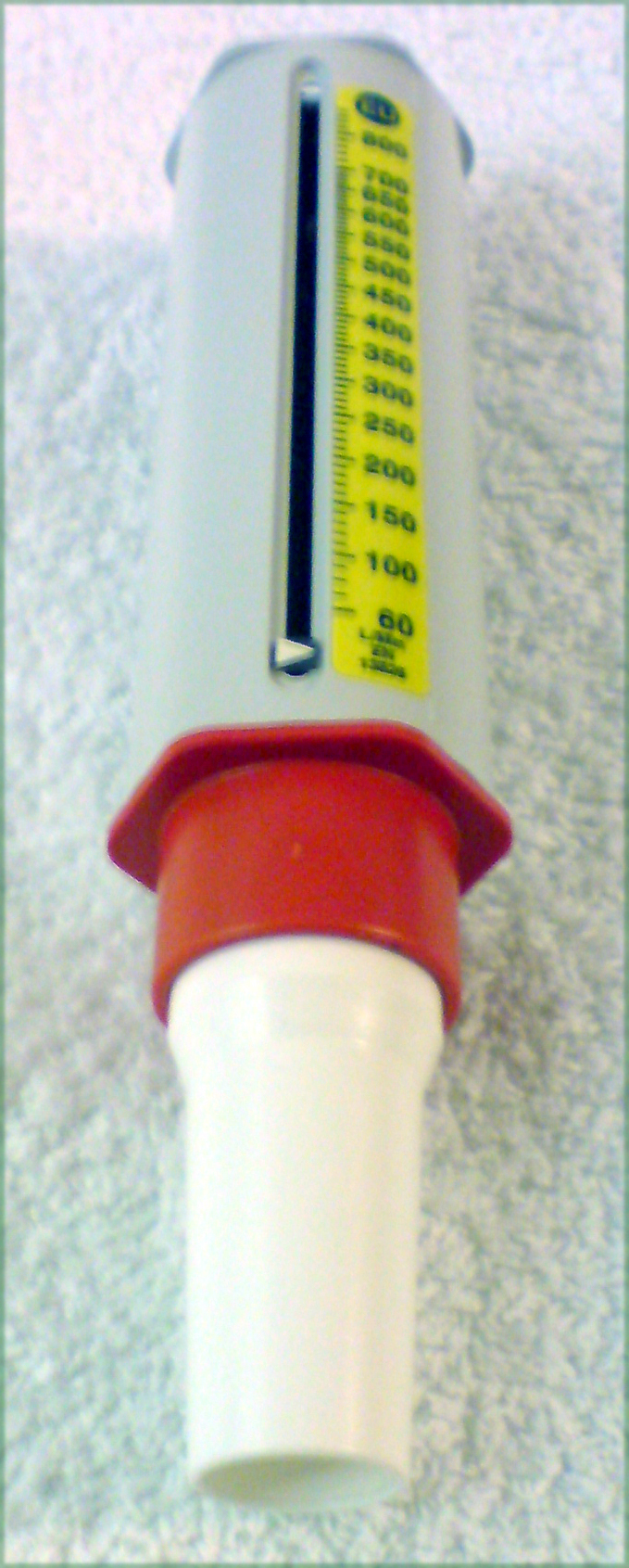 Photograph showing Peak Flow Meter as issued by NHS doctor in the UK.